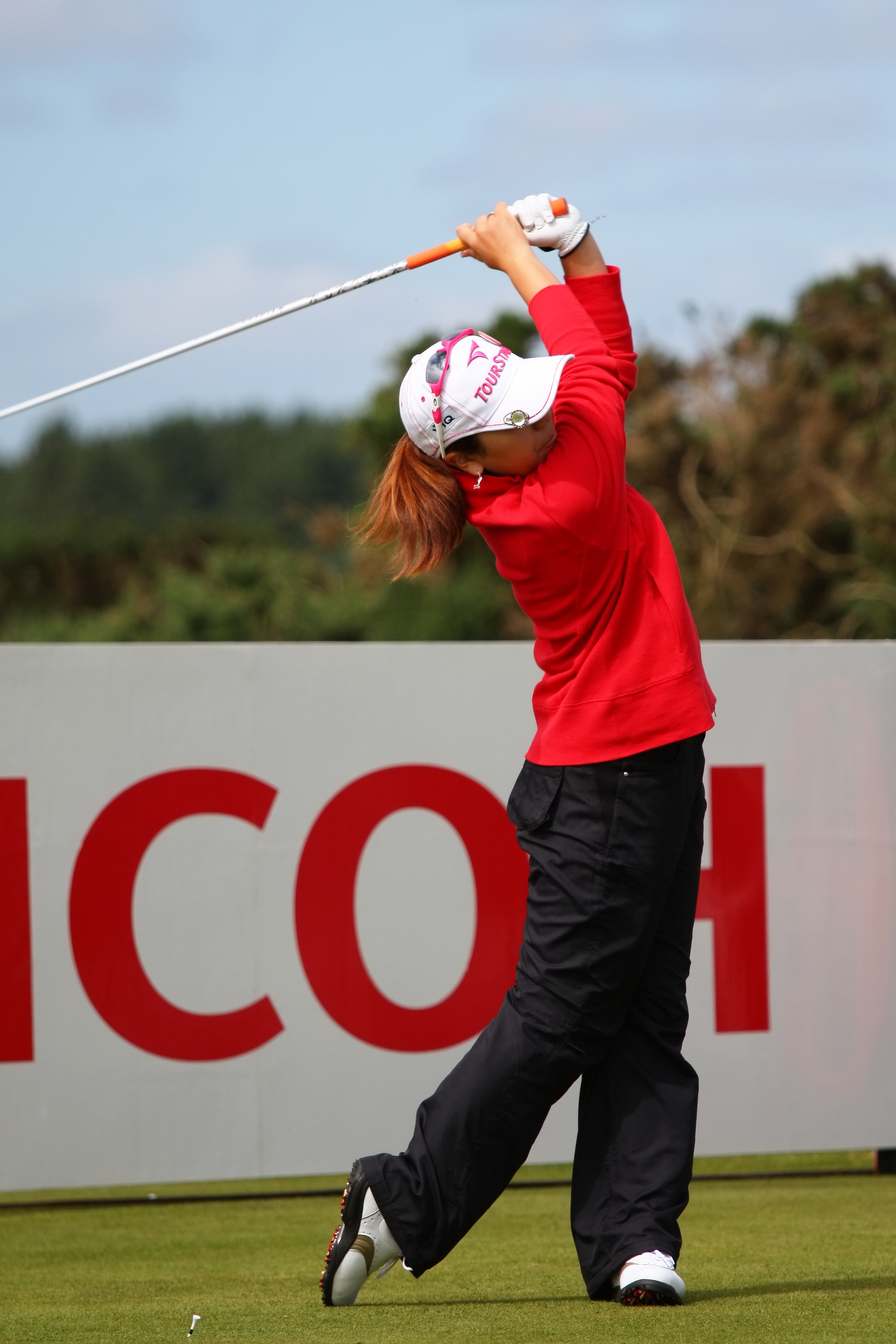 CARNOUSTIE, SCOTLAND - JULY 26: Miyazato Mika of Japan hits a tee shot on the 15th hole during the pro-am round of the 2011 Ricoh Women's British Open at Carnoustie on July 26, 2011 in Carnoustie, Scotland. (Photo by Wojciech Migda)